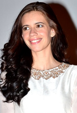 Kalki Koechlin at Manish Malhotra's show 'Men For Mijwan'